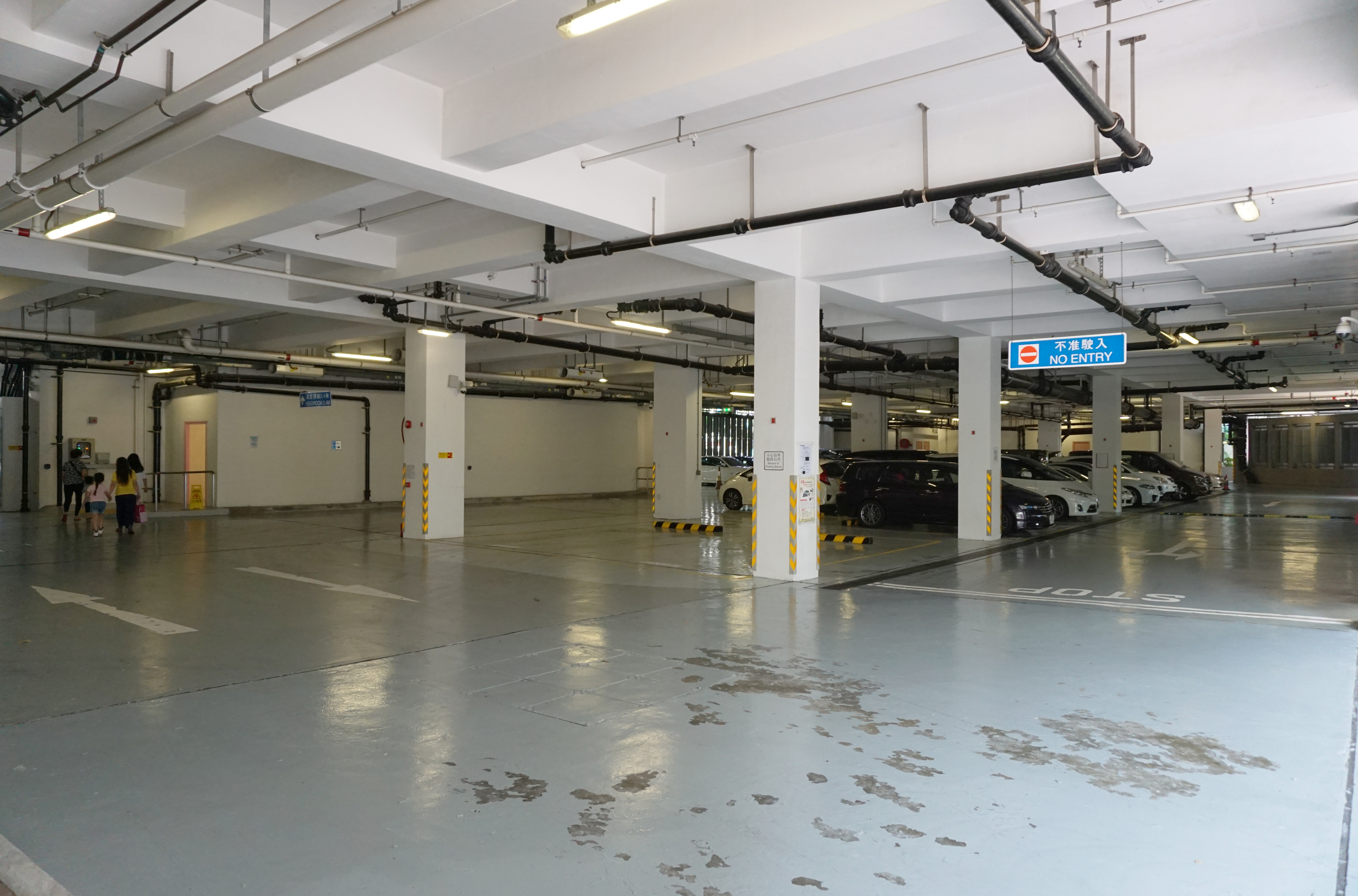 Cheung Sha Wan Estate in Cheung Sha Wan, Hong Kong.